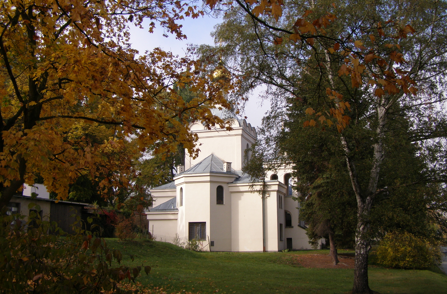 Třebíč-Horka-Domky. Třebíč Orthodox church: St. Wenceslas and St. Ludmila church